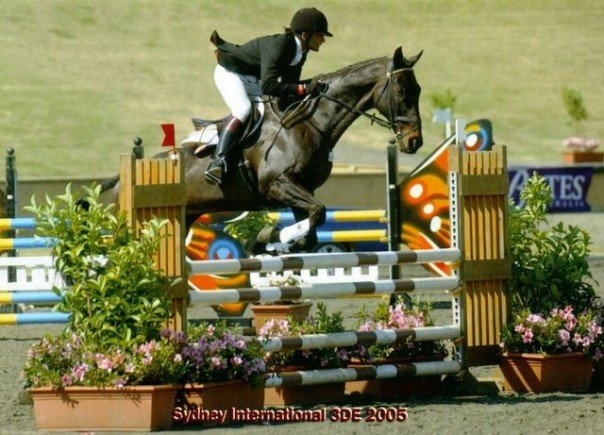 NA